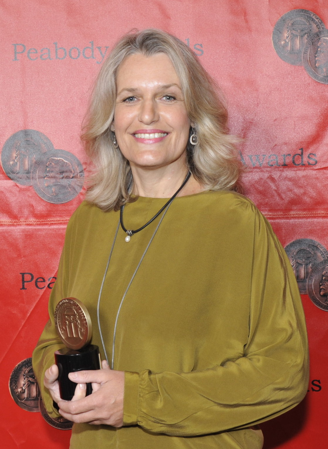 PHOTO CREDIT: ANDERS KRUSBERG / PEABODY AWARDS Lise Lense-Moller 70th Annual Peabody Awards Luncheon Waldorf=Astoria Hotel May 23, 2011